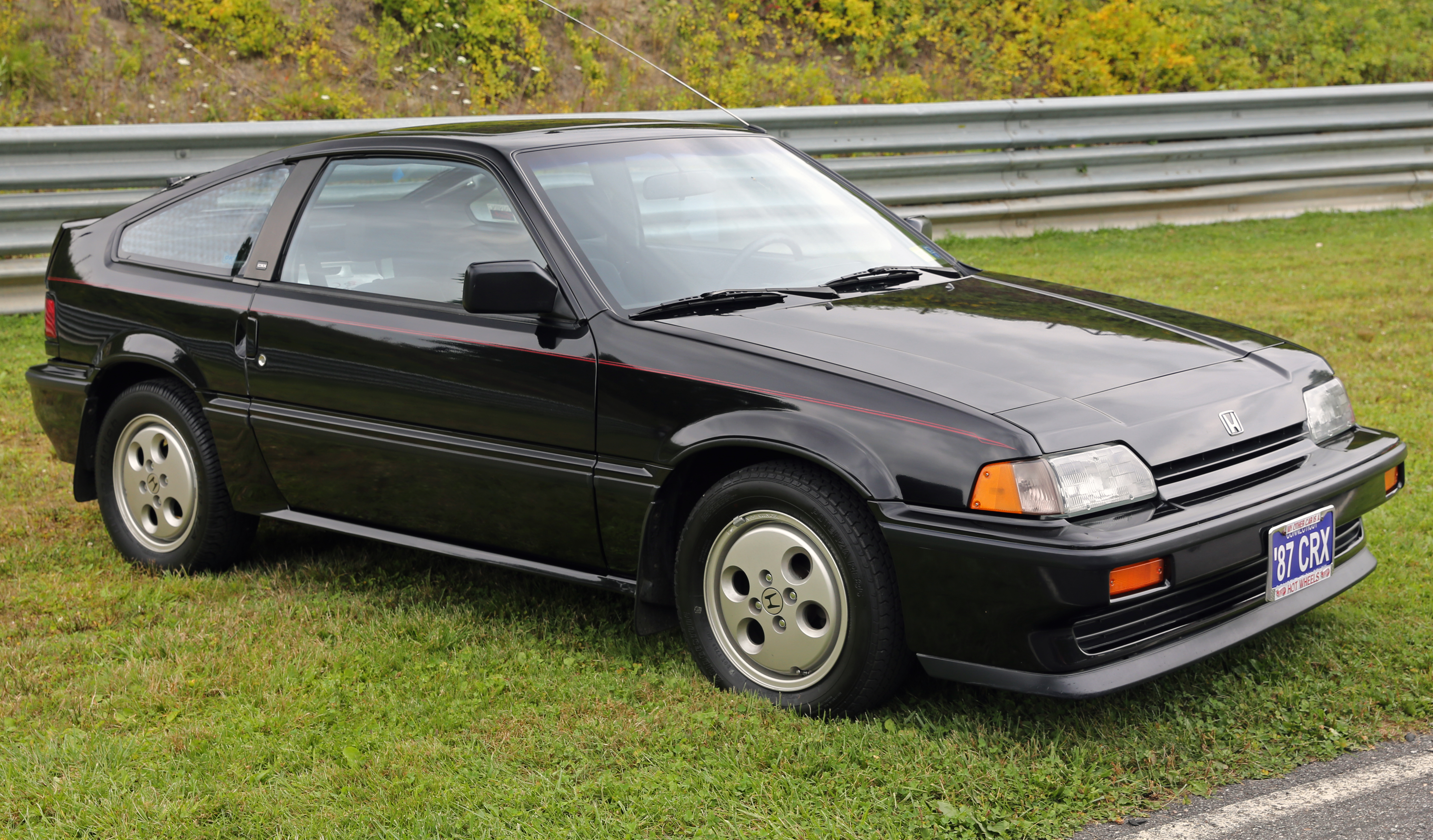 A 1987 Honda CR-X Si seen at the 2014 Lime Rock Gathering of the Marques attached to the Concours d'Élegance.